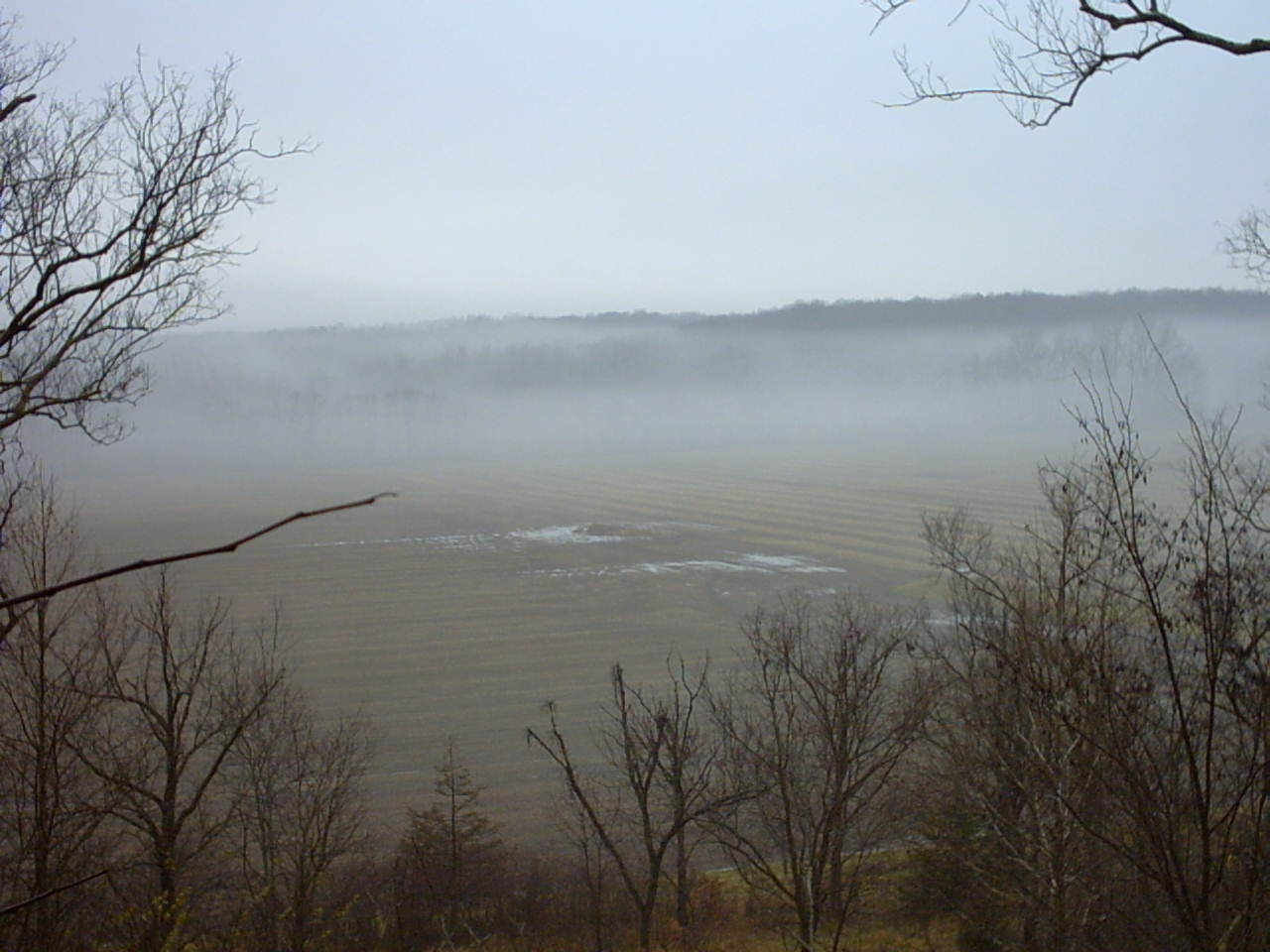 Photograph of Adam-ondi-Ahman taken 12/6/2004 by Ryan Reeder.